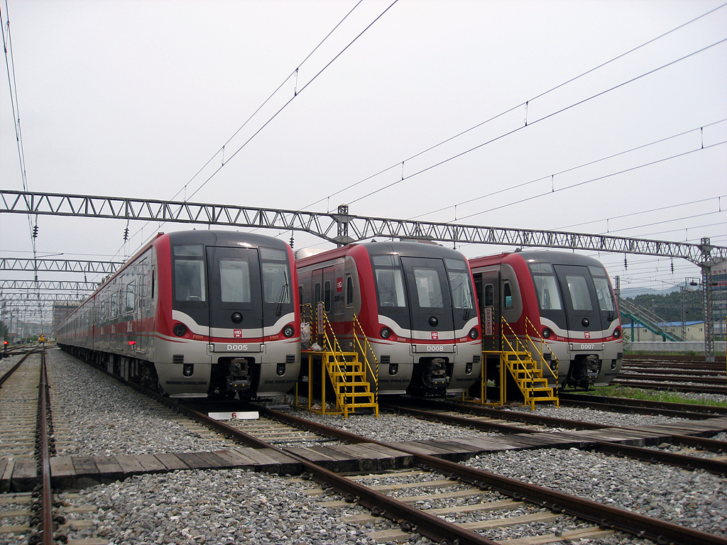 A trains of Sin Bundang Line